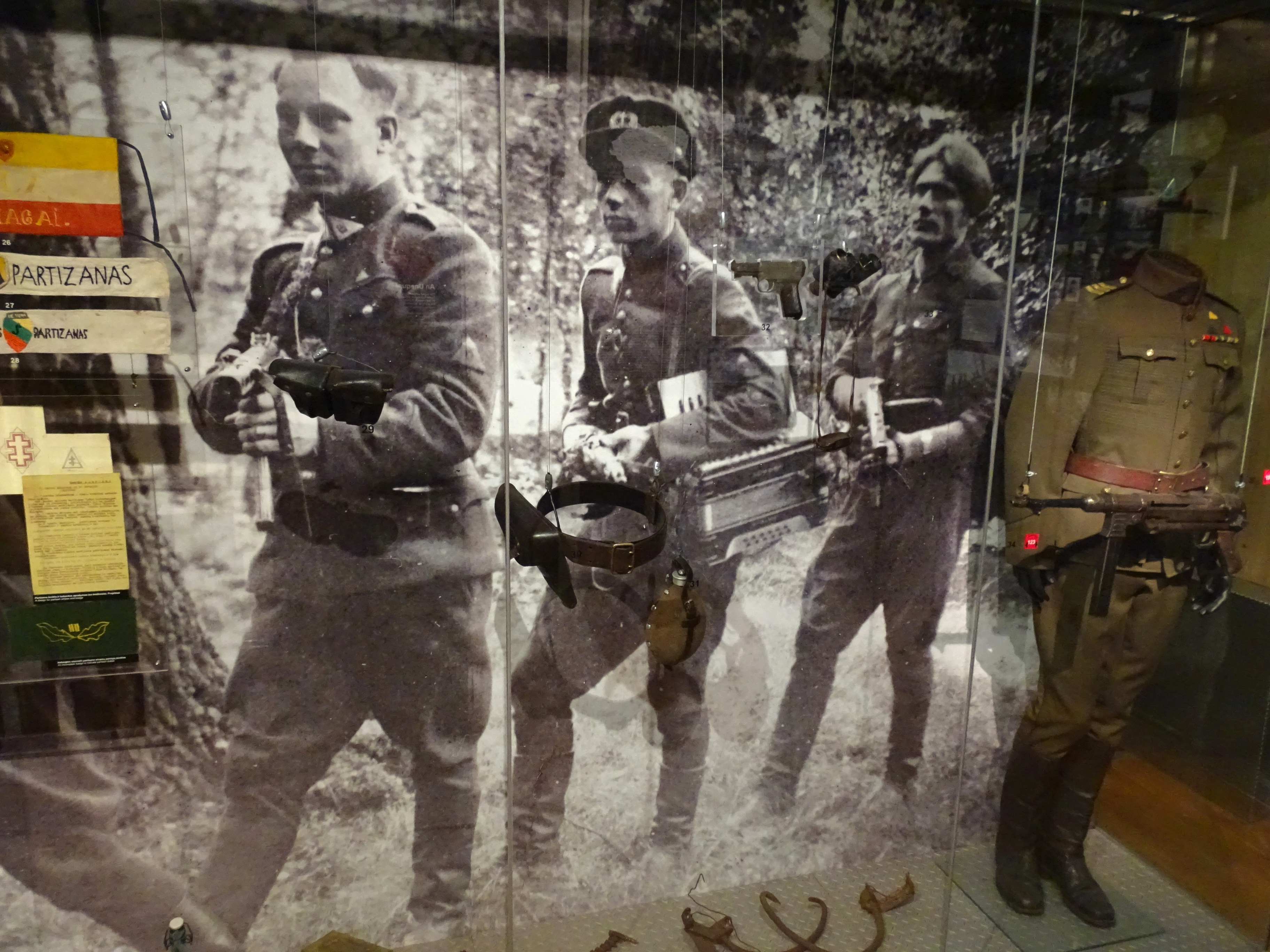 Exhibit on Lithuanian Anti-Soviet Partisans - Museum of Genocide Victims - Vilnius - Lithuania